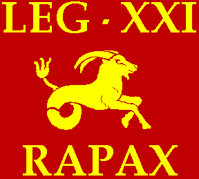 Signum of Legio XXI Rapax (simplified reconstruction)